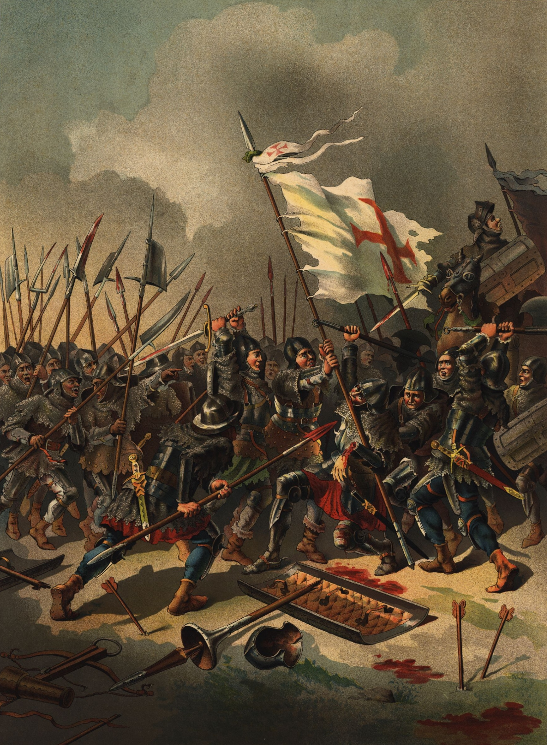 The hero Duarte de Almeida holds the Portuguese royal standard during the Battle of Toro (1476), even though his hands have been cut off.